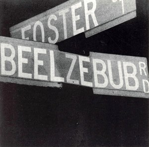 Foster Street album cover